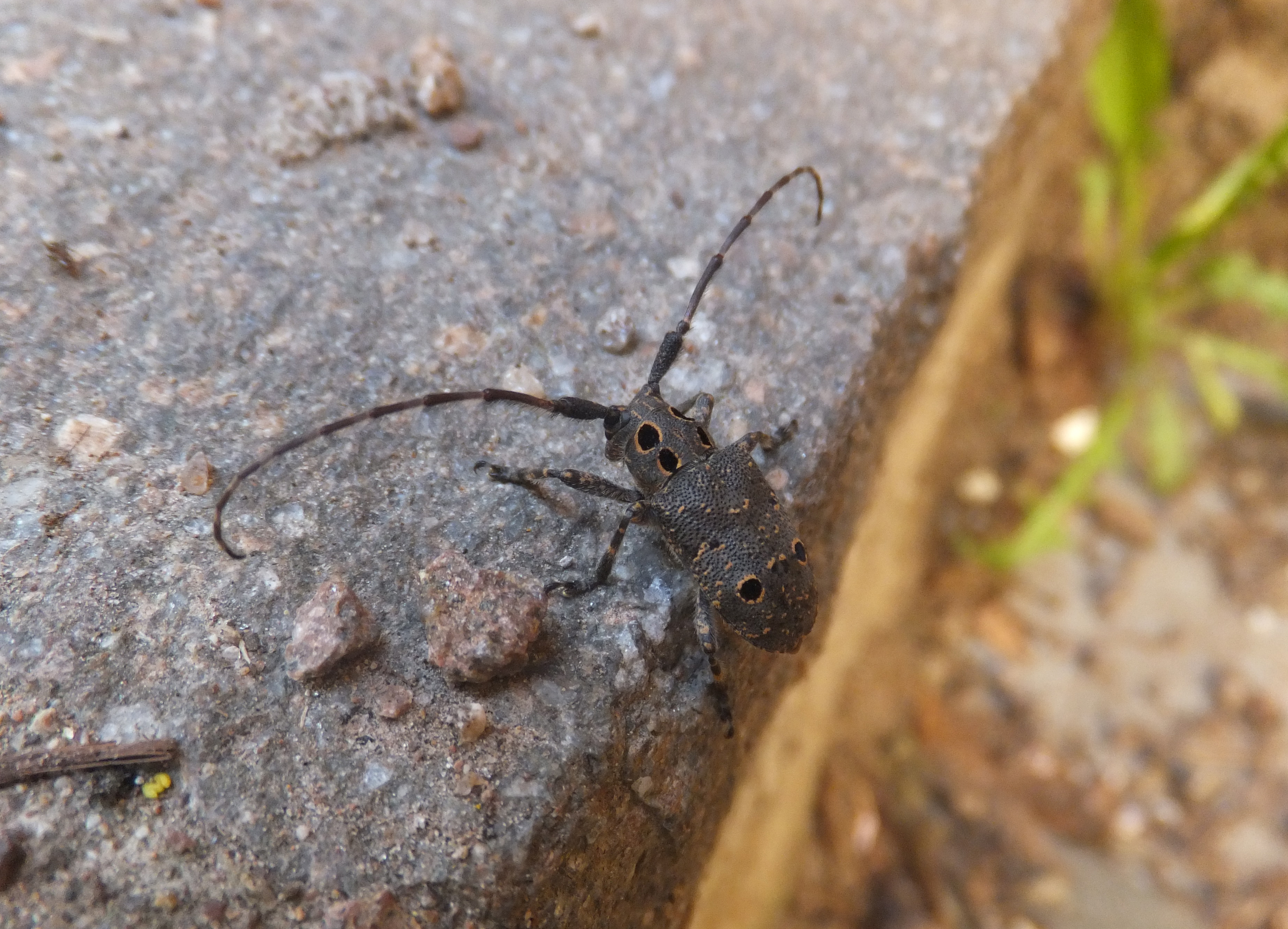 Mesosa curculionoides photographed in Piazzo (Segonzano, Italy)